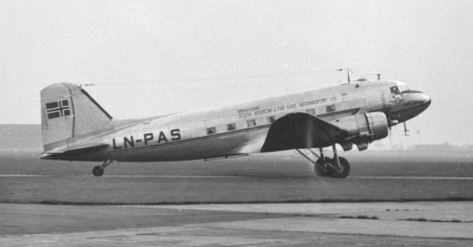 Braathens SAFE Douglas DC-3 at Manchester